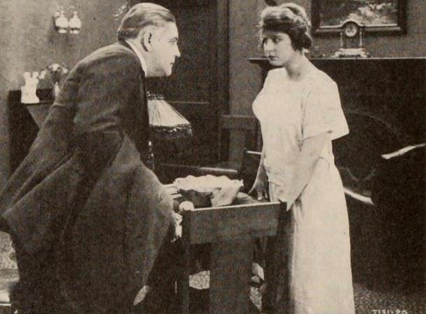 Still from the American drama film Quicksand (1918) with Henry A. Barrows and Dorothy Dalton, on page 33 of the December 21, 1918 Exhibitors Herald.